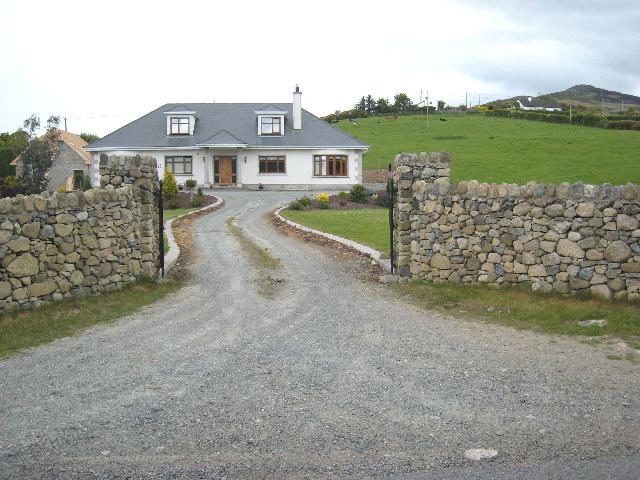 Bungalow near Jenkinstown Cross. The Round Mountain J1110 in the Cooley Mountains can be seen in the background.